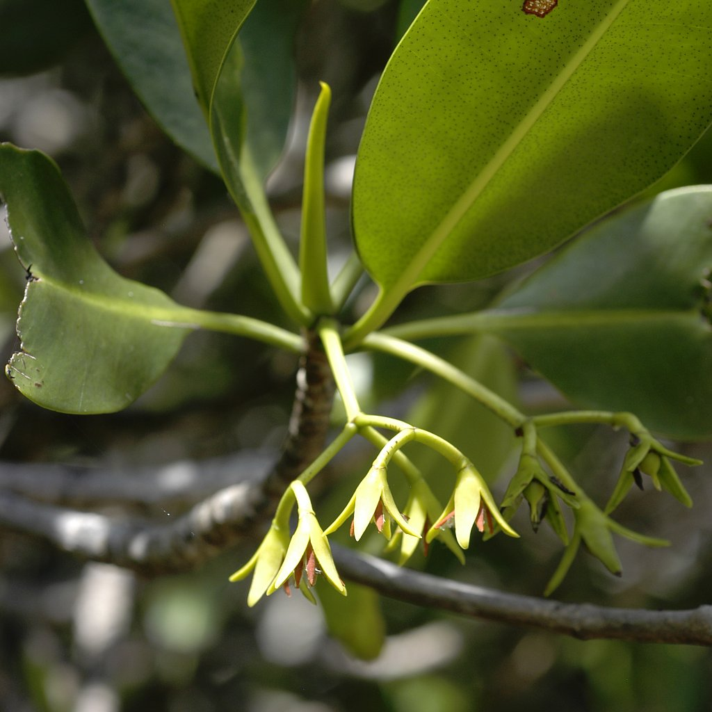 Inflorescences of the Red Mangrove (Rhizophora mangle), mangrove forest on Ajuruteua peninsula, Bragança, Pará, Brazil